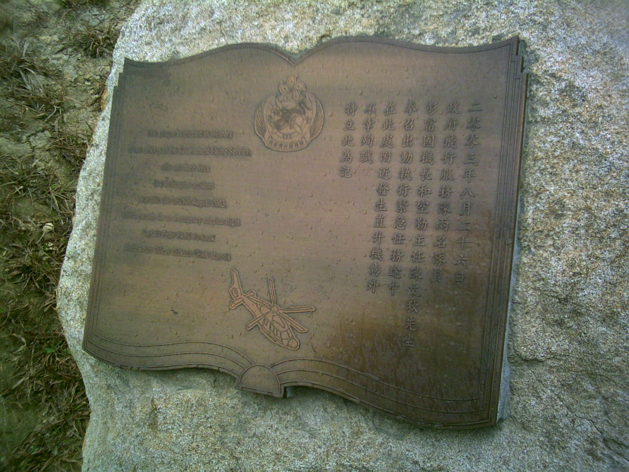 Monument of B-HRX_accident in Hong Kong